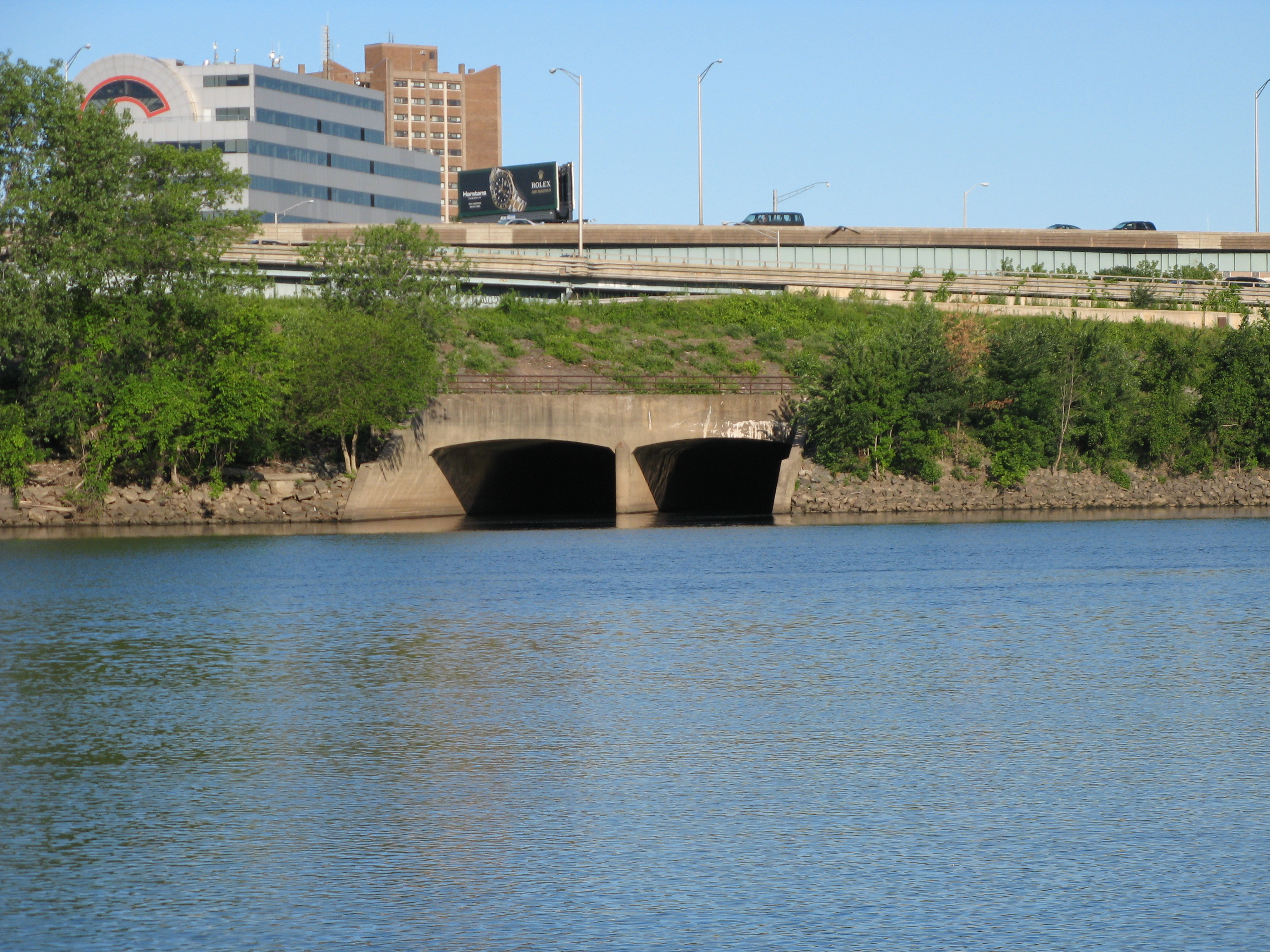 The confluence of the buried Park River with the Connecticut River in Hartford, Connecticut USA